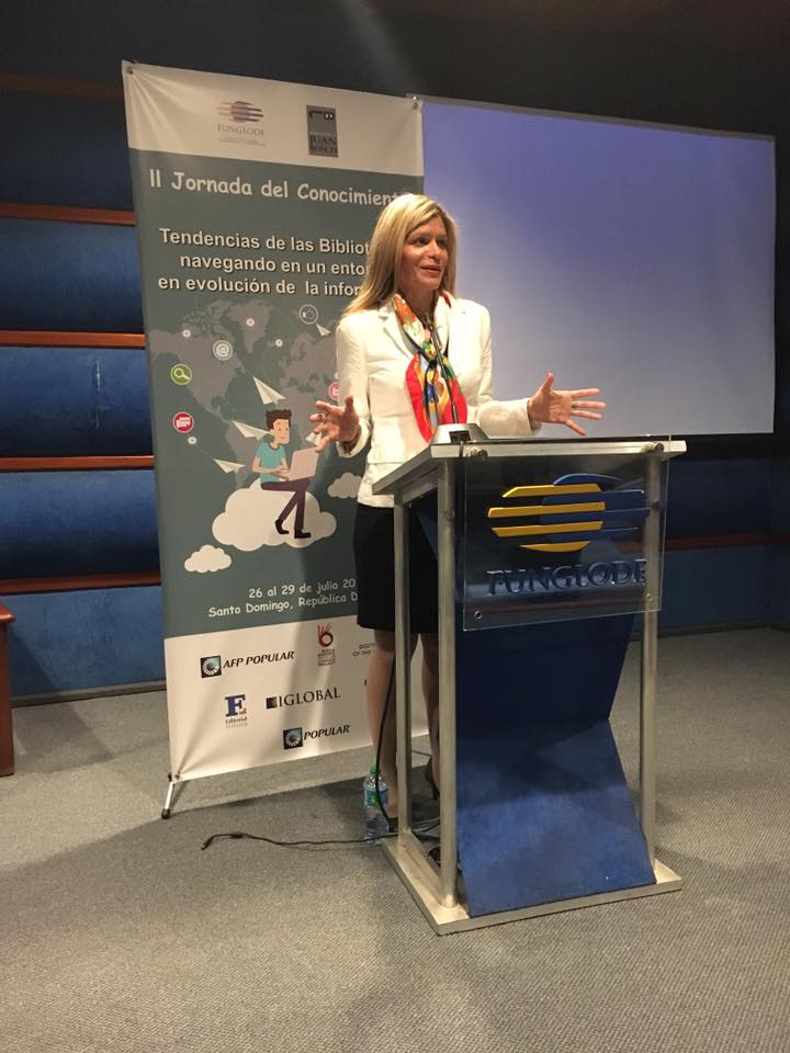 Loida Garcia-Febo speaking at podium.